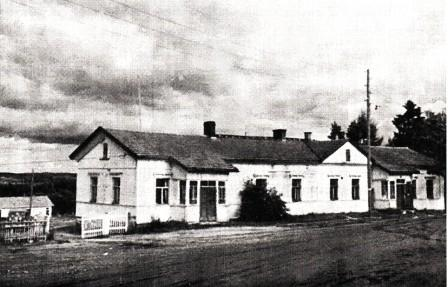 Heinävesi town hall in Finland in the 1930s.